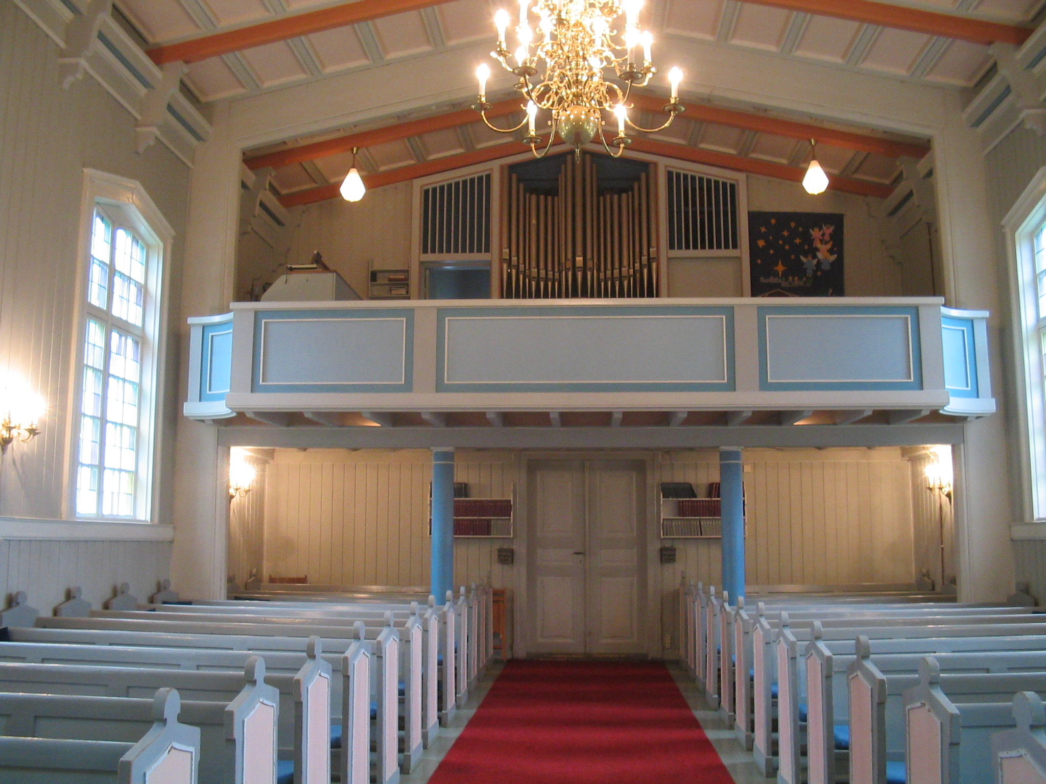 Konnerud old church, Drammen, Norway, organ